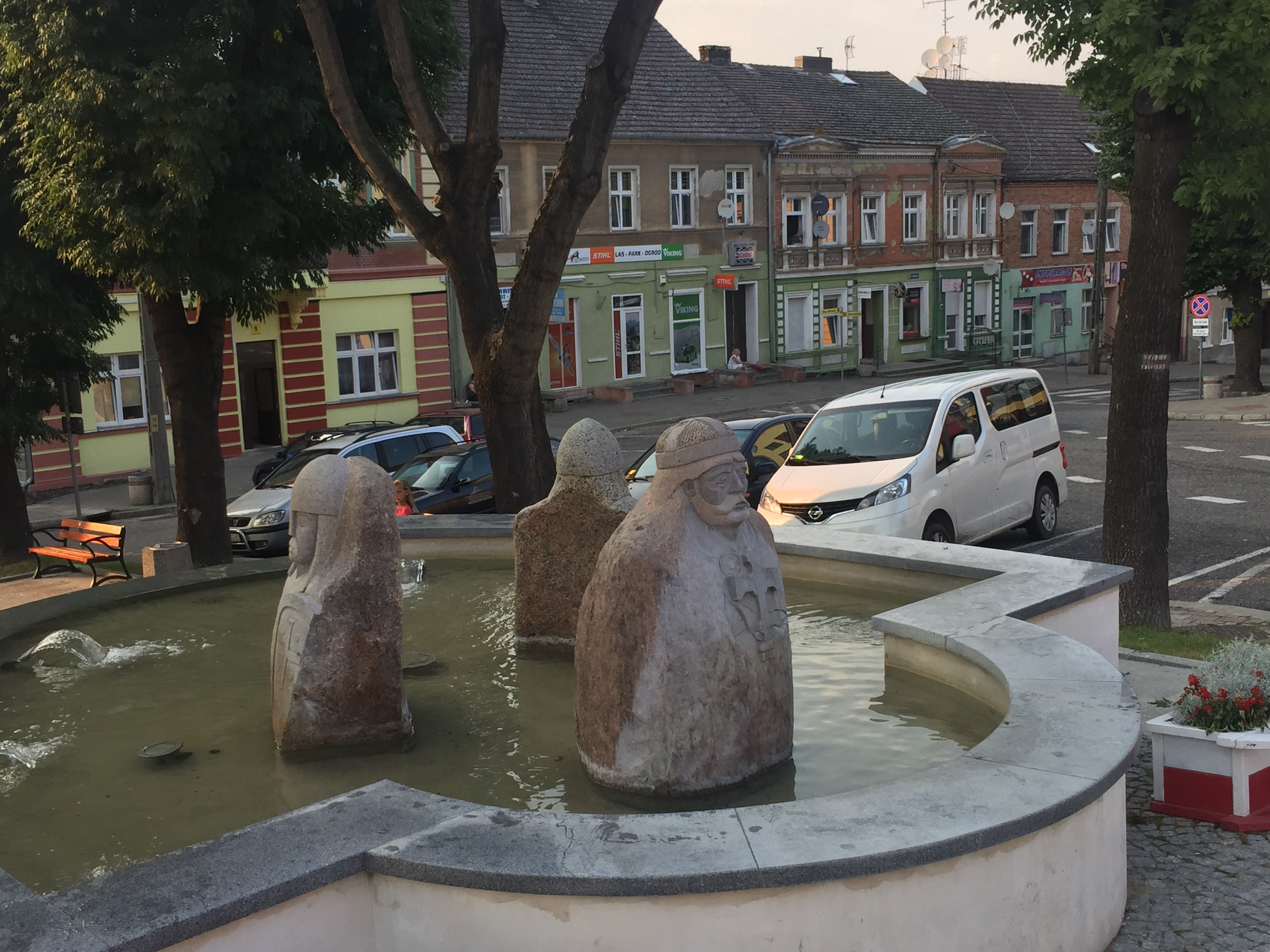 Monument to the Warriors, Cedynia, Poland in September 2016_II